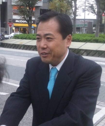 Hideo Jimpu, Japanese politician